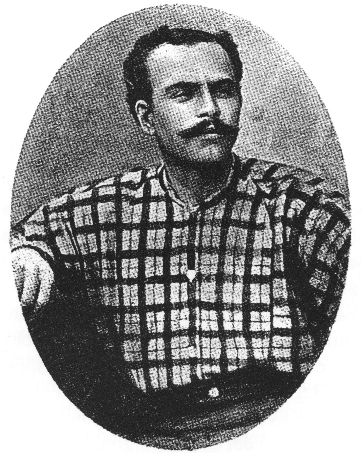 Gennaro Rubino (English bio)